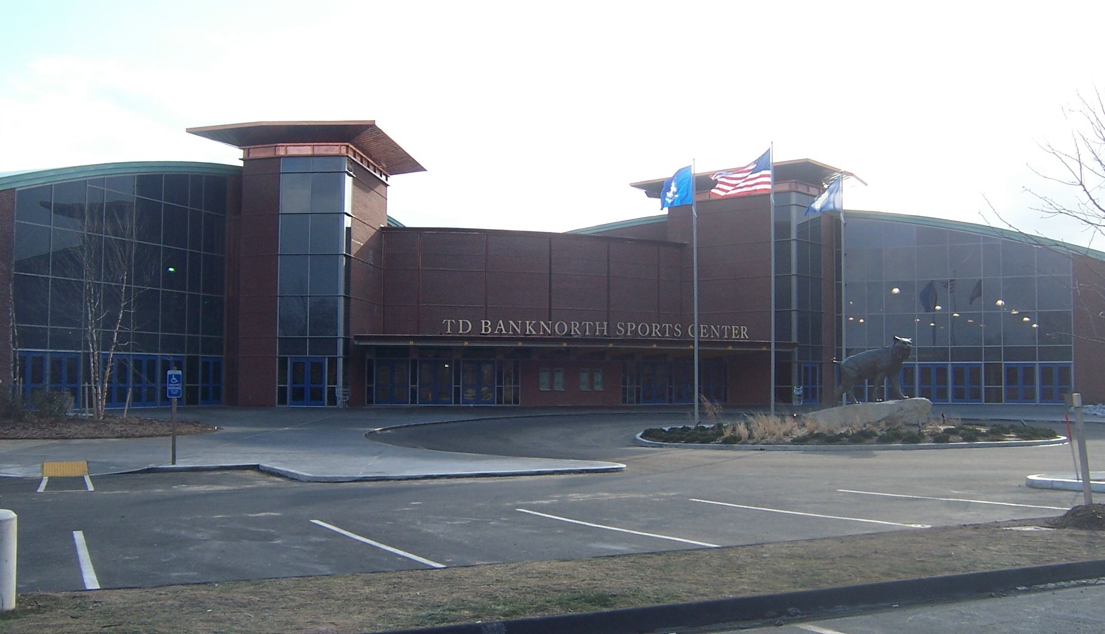 TDBanknorth Sports Center. Basketball on the left side, ice hockey on the right side, bronze Bobcat statue in front. TDBankNorth Sports Center, Hamden CT. Taken by me, 10 February 2007.